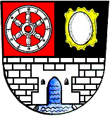 Coat of Arms of Weibersbrunn